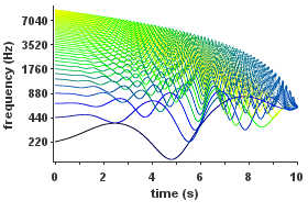 Spectrum of a sound created by inharmonic additive synthesis